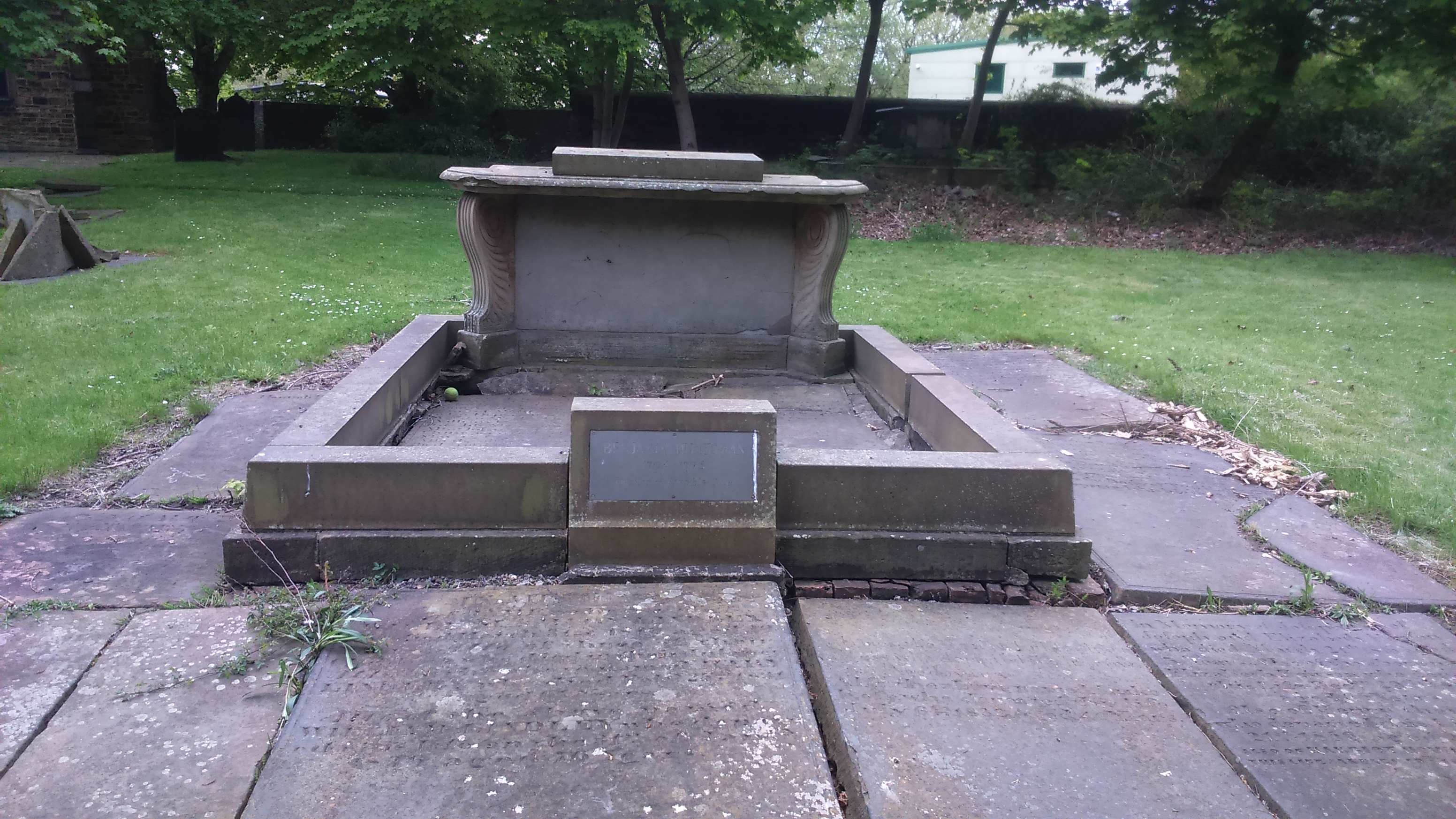 The tomb of Benjamin Huntsman (1704–76) in the Attercliffe chapel yard, Sheffield, South Yorkshire, seen from the east